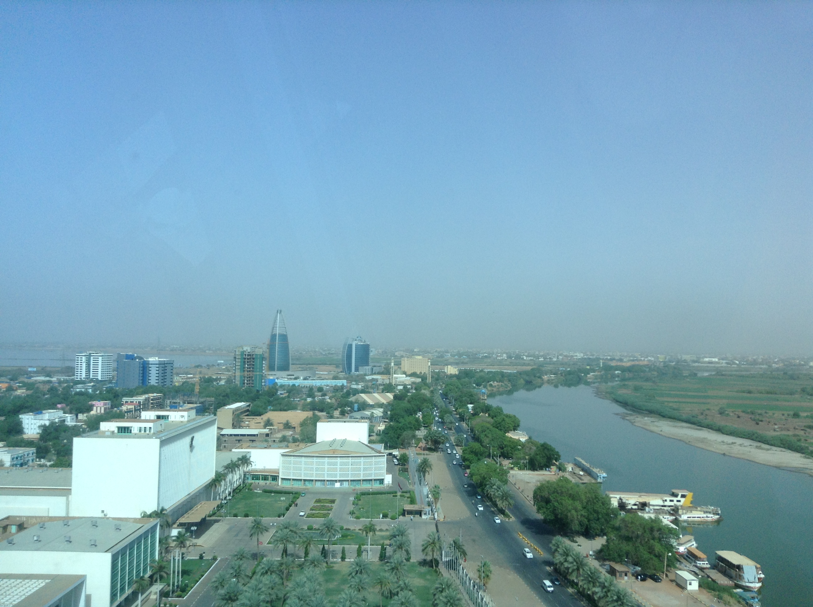 Khartoum aerial view from Corinthia Hotel